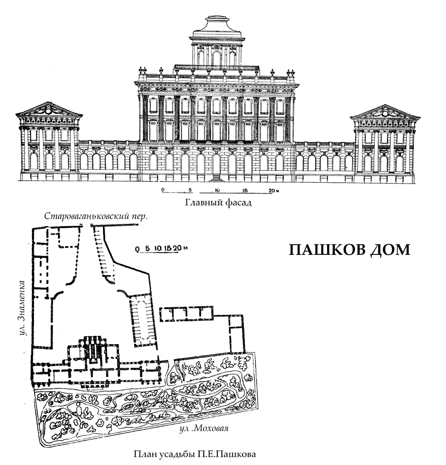 Pashkov House, plan and fasade